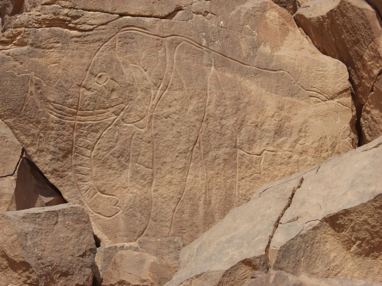 engraving of an elephant at Mathendous in southwest Libya.